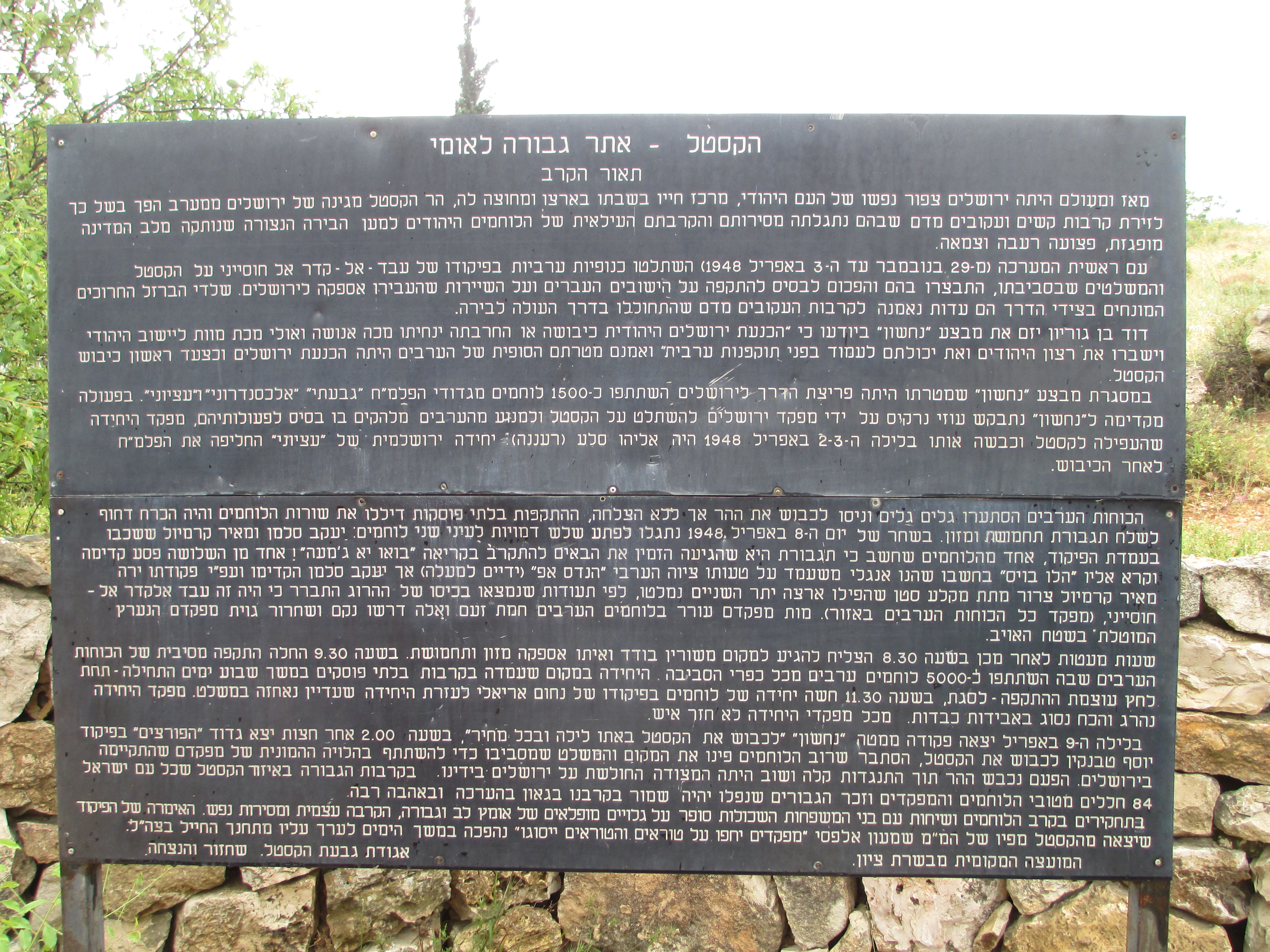 castel battle description in castel national park תיאור קרב הקסטל בגן לאומי קסטל